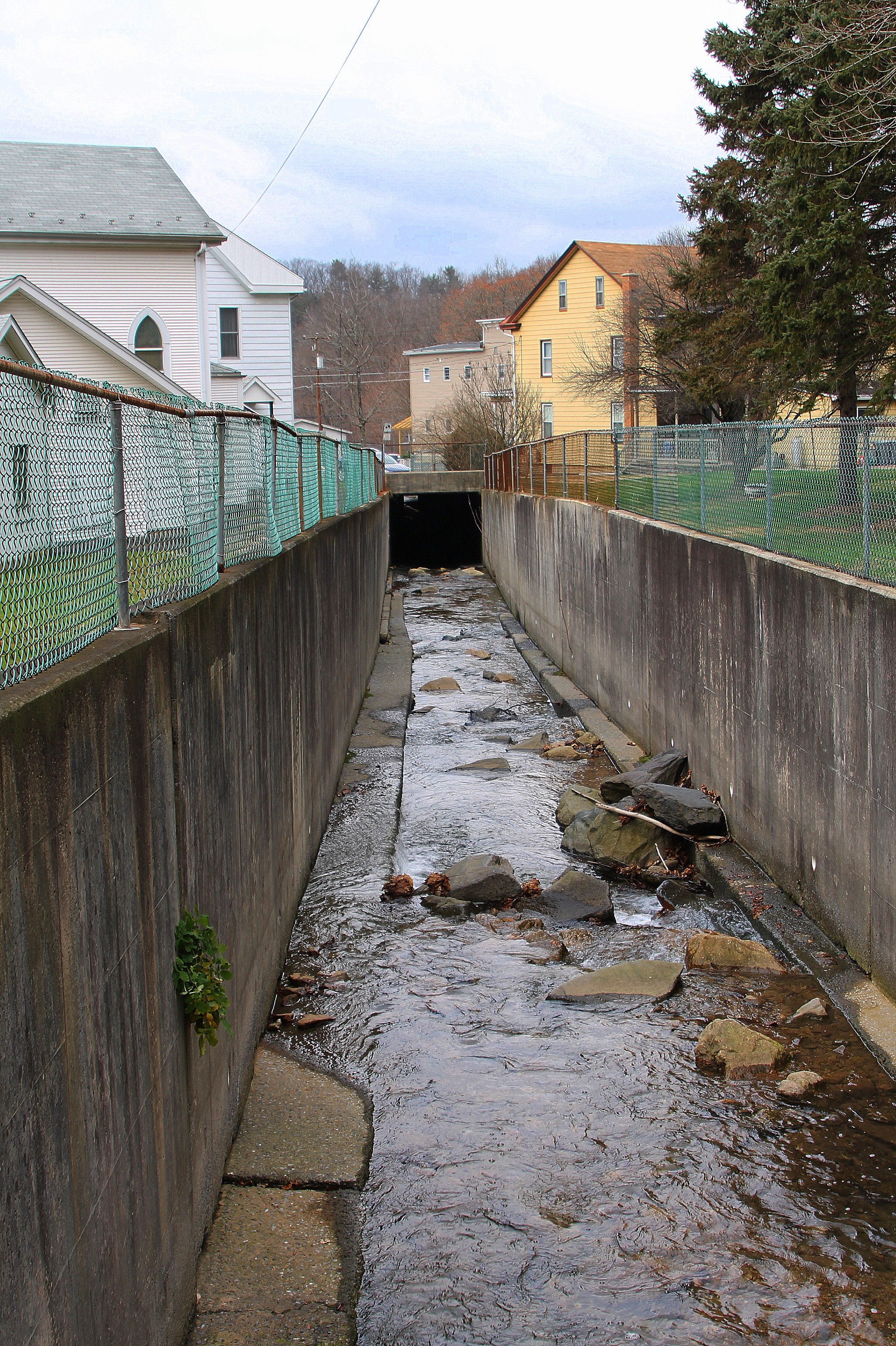 Rattling Run, the only named tributary of Little Mahanoy Creek, flowing through Gordon between flood walls.